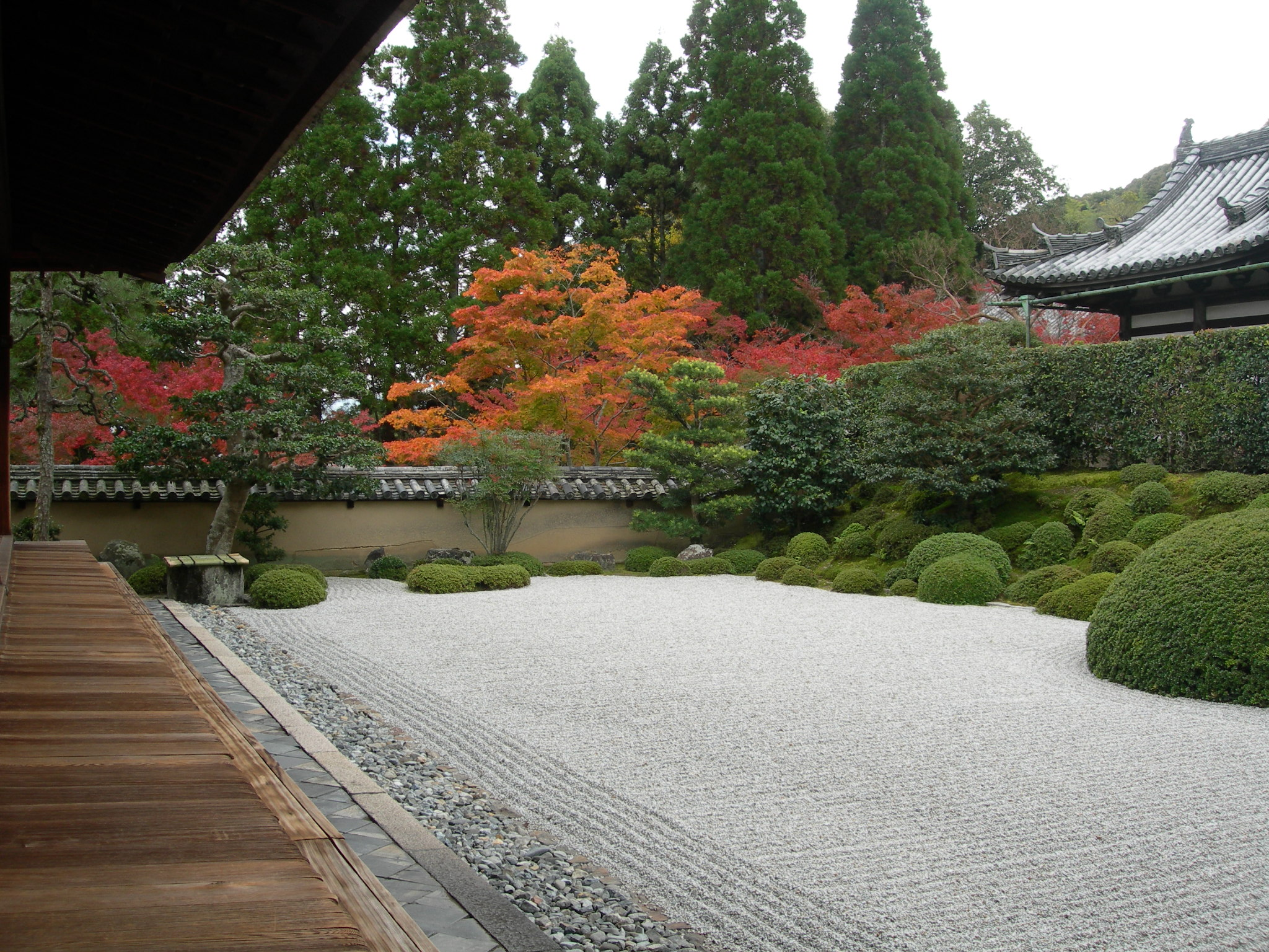 "Hojo Teien (Garden)" (Monuments of Japan) of Ikkyu-Ji Temple, Kyōtanabe, Kyoto. taken in 2010.